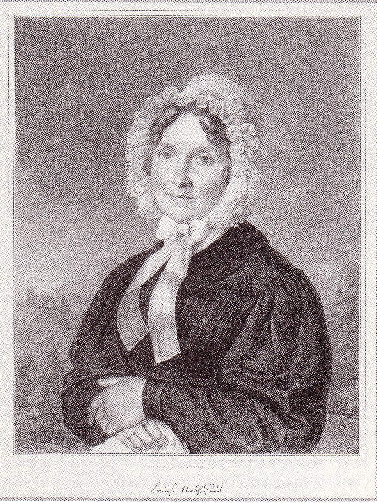 Luise Nathusius, stich